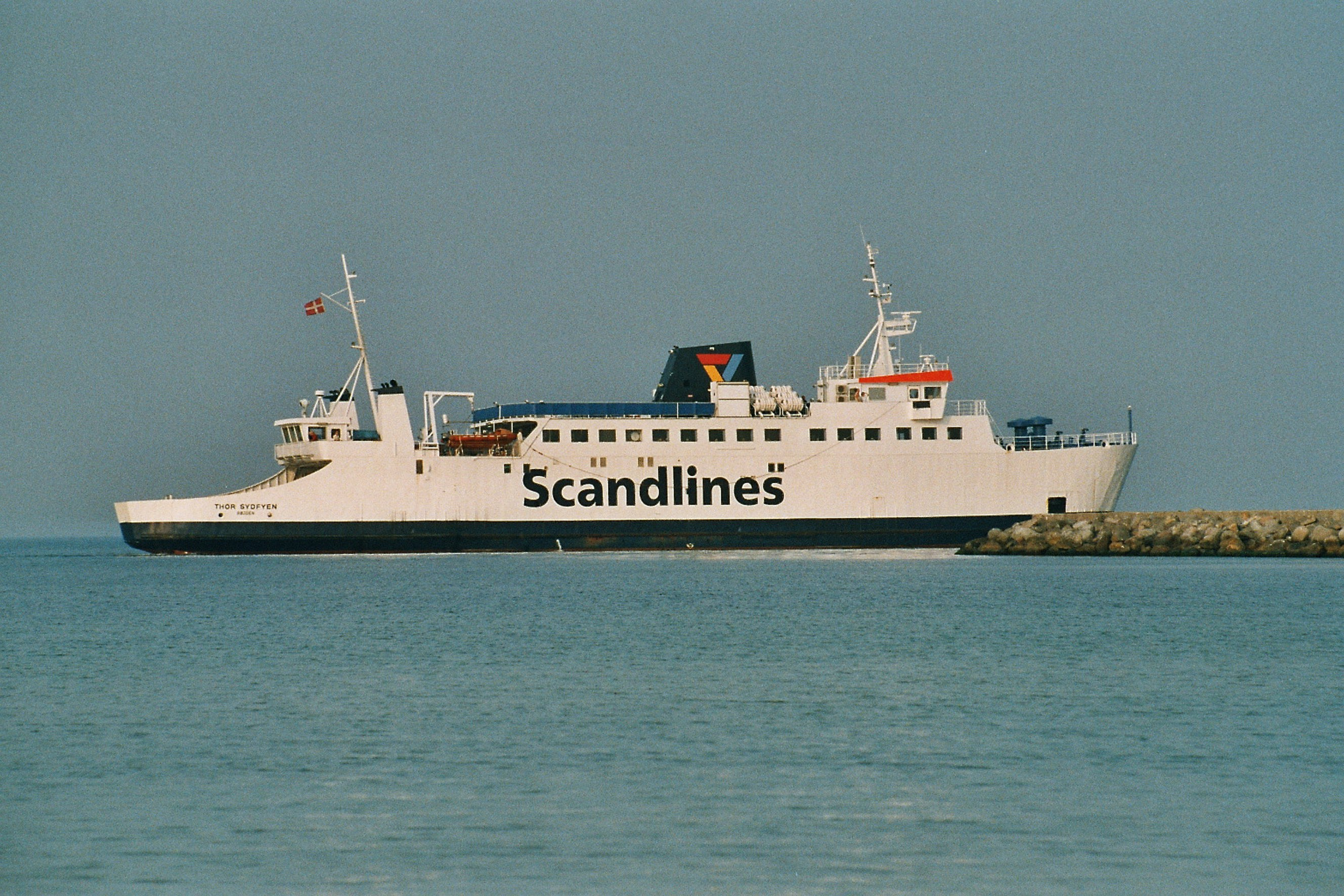 Fynshav (Als island), the ferry from Fyn island